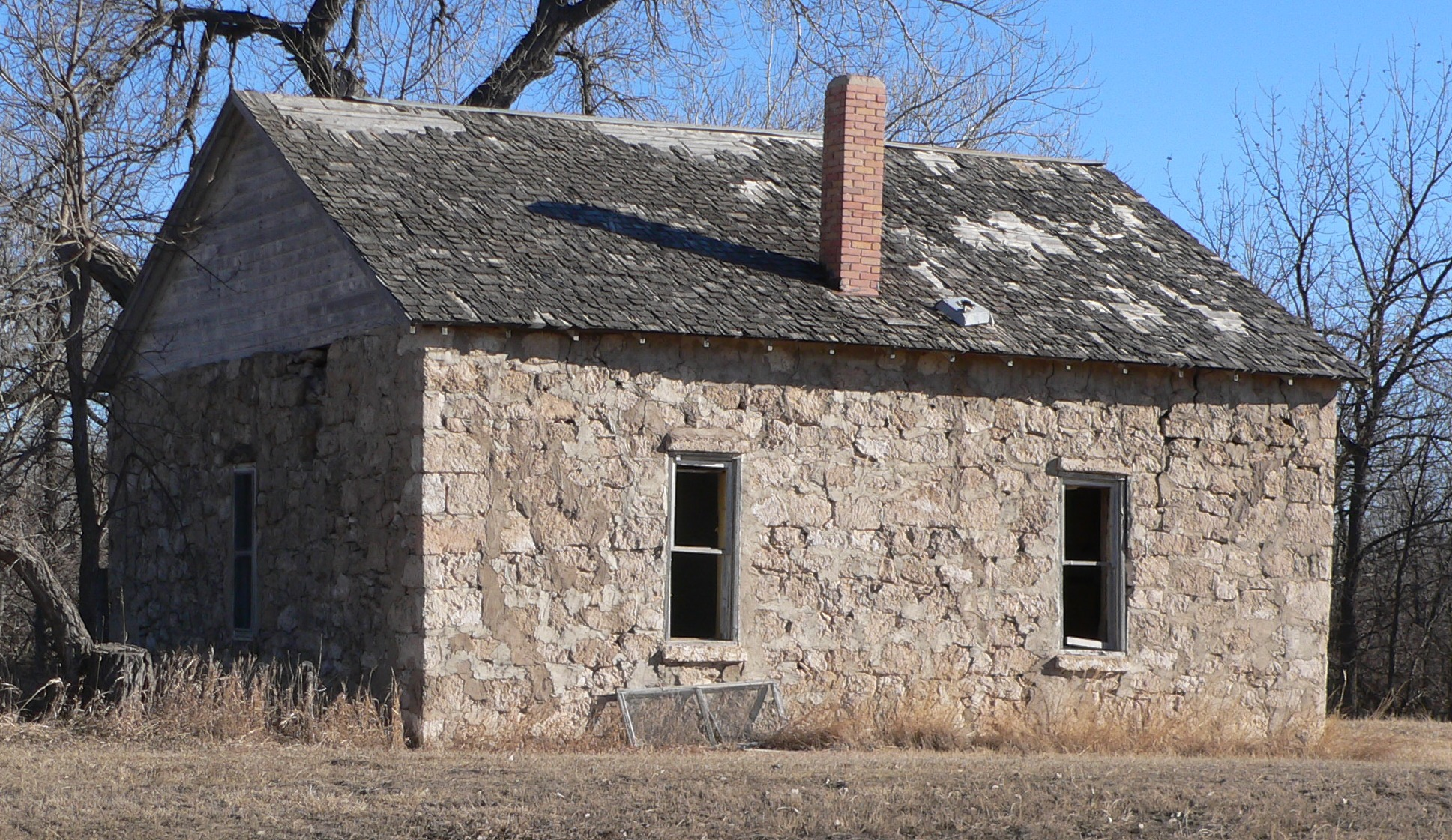 J.M. Daniel School-District No. 3, located near Hamlet, Nebraska; seen from the northwest. The building was constructed in 1884, and is listed in the National Register of Historic Places. It is no longer in use as a school.